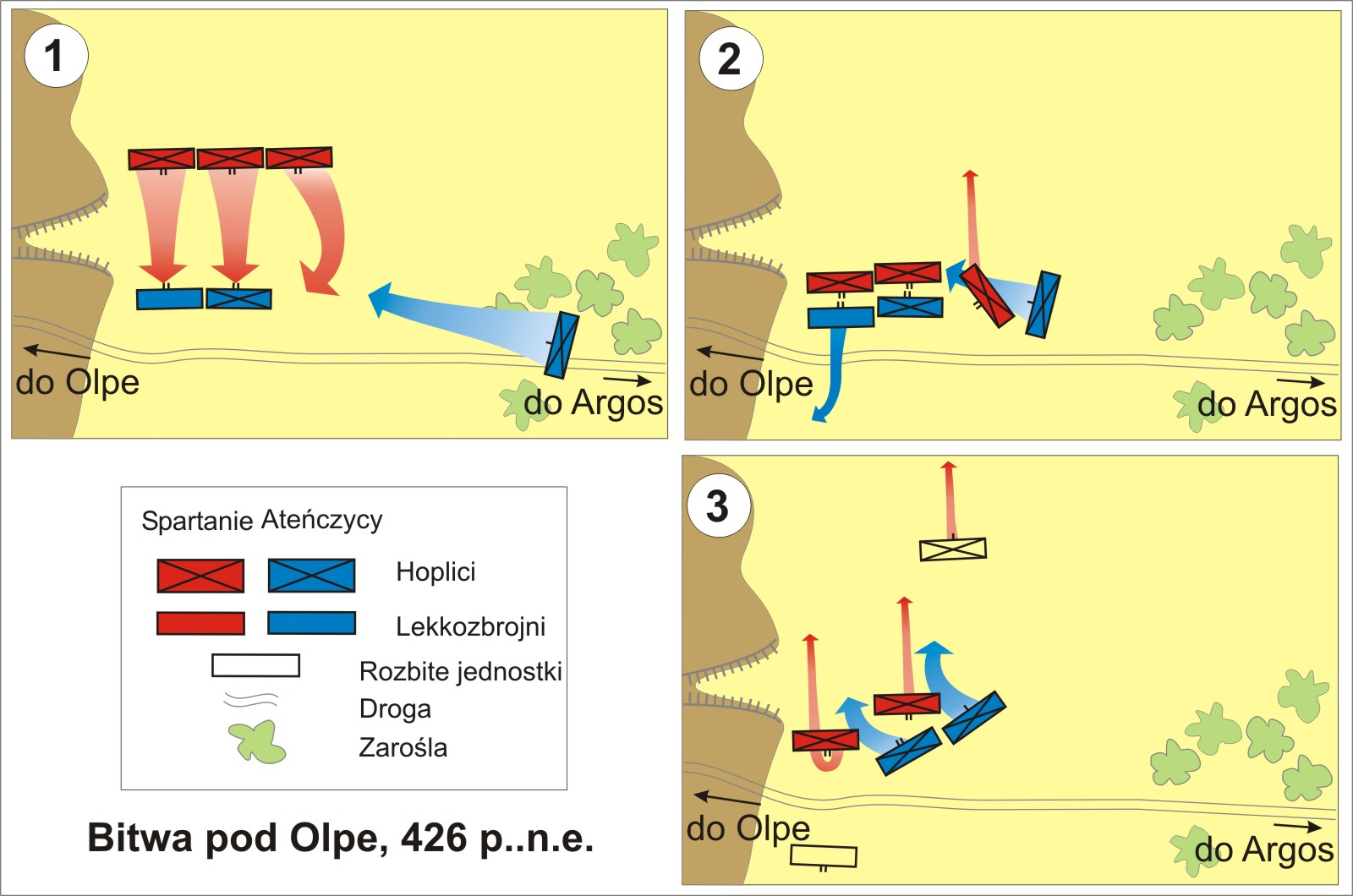 olpe1_battleplan.jpg description: battle of Olpe (426 BC - during peloponesian war) - map of the battle site and battle diagram author: Tomasz Brzeziński date: 26.02.2006